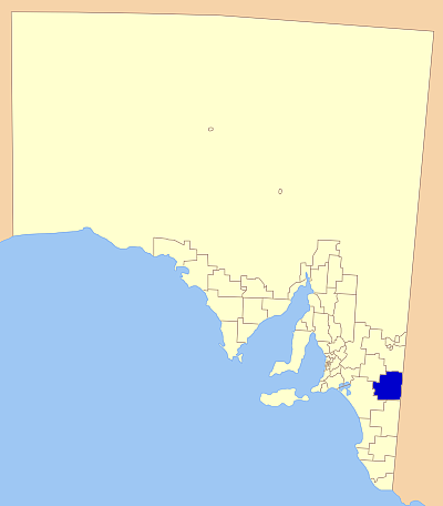 Map of South Australia showing the location of the Southern Mallee Local Government Area. A modification of GDFL map by Astrokey44; found here: File:SA_LGA_blank.png